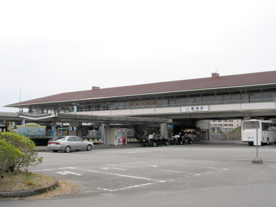 North gate of Kashikojima Station Shima Line Kintetsu. 近畿日本鉄道志摩線賢島駅北口